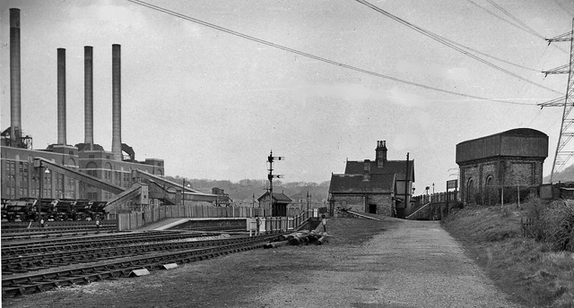 Buildwas Station. View eastward, towards Bridgnorth, Bewdley and Hartlebury (Severn Valley line), also Coalbrookdale, Wellington and Madeley Junction. Junction of Severn Valley line (Shrewsbury - Hartlebury) with Wellington - Coalbrookdale - Buildwas - Much Wenlock - Craven Arms line, all ex-Great Western. The station was closed on 9/9/63 on closure of the Severn Valley line. Passenger services from Craven Arms had ceased on 31/12/51, from Much Wenlock and from Wellington on 23/7/62, but the line to Buildwas remained open from Longville for freight until 4/12/63 and from Ketley on the Wellington line until 6/7/64. However, coal traffic for Ironbridge Power Station (B Station built on site of Buildwas railway station) has continued from Madeley Junction, on the main line between Shifnal and Telford Central. The Power Station in this photograph was Ironbridge A.